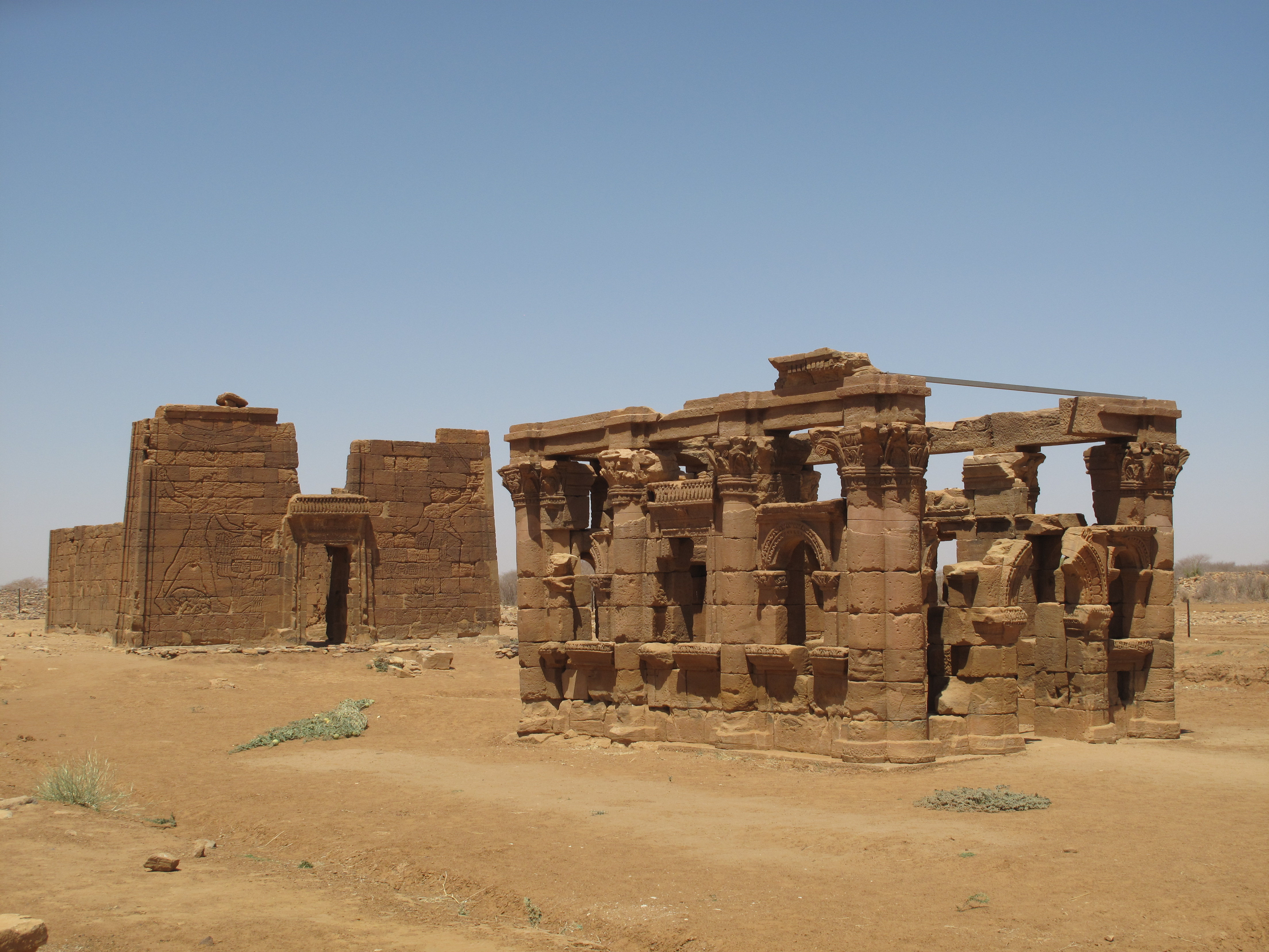 So called Roman Kiosk and Apedemak Temple in Naqa - Archaeological Sites of the Island of Meroe (Sudan)